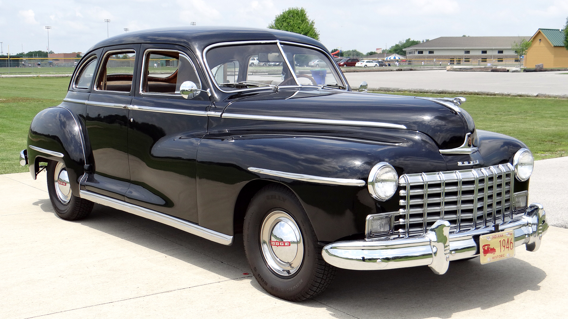 1946 Dodge 4-door Custom series model D24C. L-head (flathead) inline 6-cylinder engine displacing 230 cubic inches producing 102 horsepower. Fluid Drive (fluid coupling) driving a 3-speed manual transmission. 6-volt positive ground electrical system.